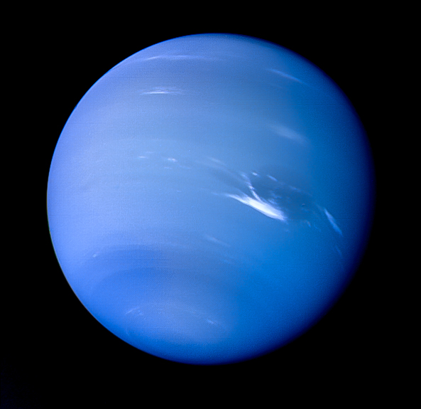 Processed using orange, green, and CH4-U filtered images of Neptune taken by Voyager 2 on August 24 1989. NASA/JPL-Caltech/Kevin M. Gill